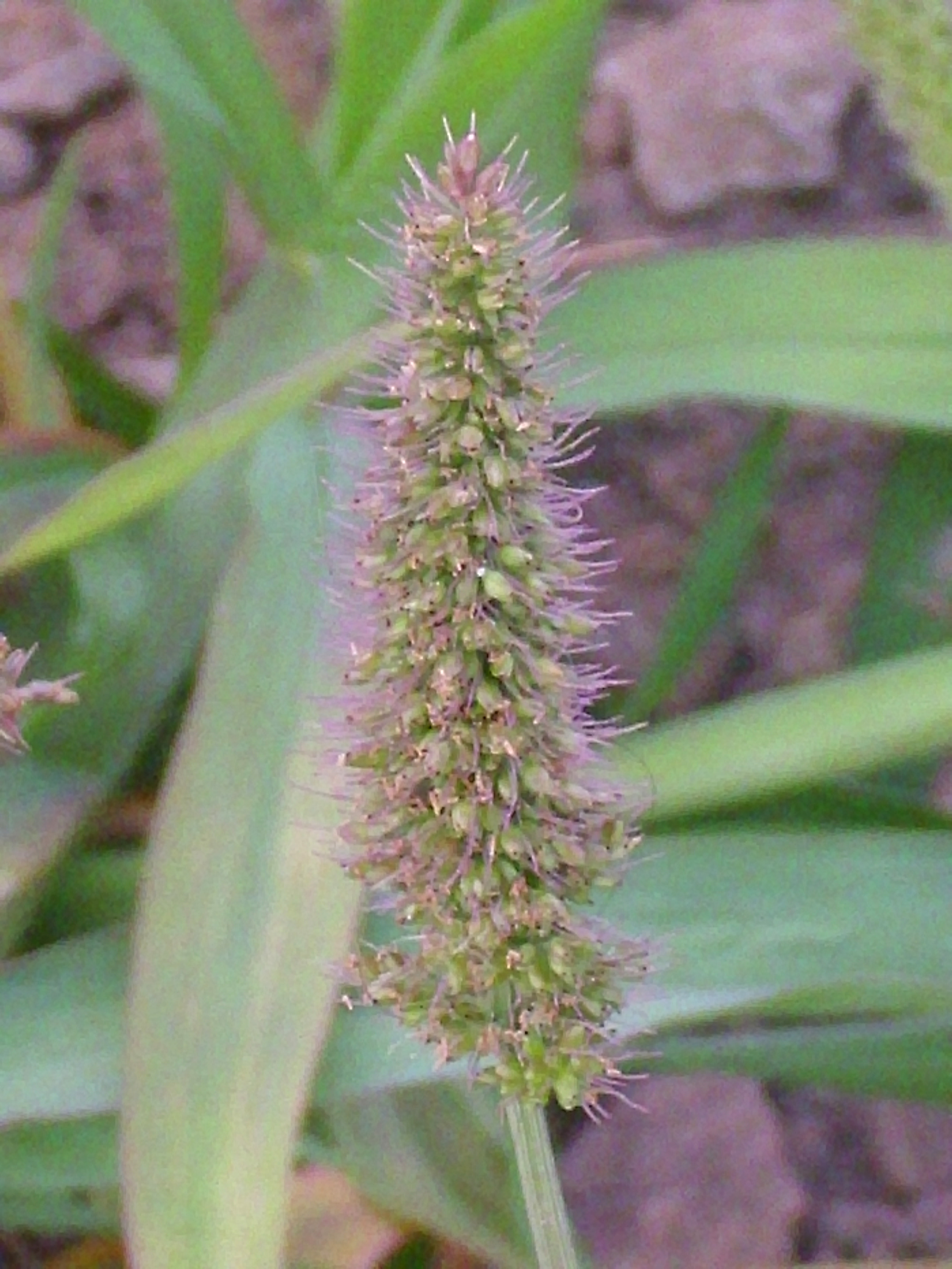 Setaria verticillata close up, Dehesa Boyal de Puertollano, Spain